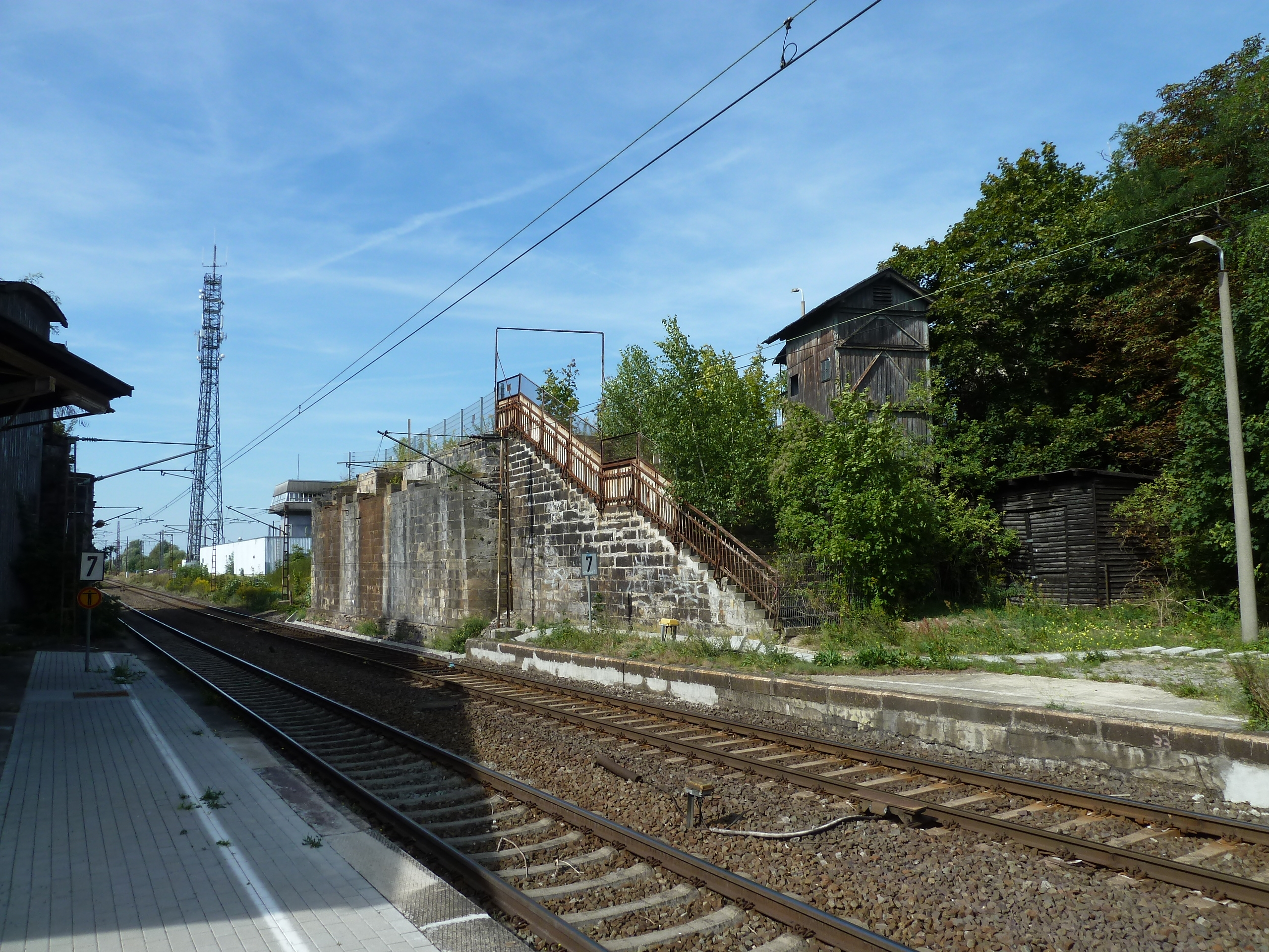 Güterglück train station, former railway line crossing